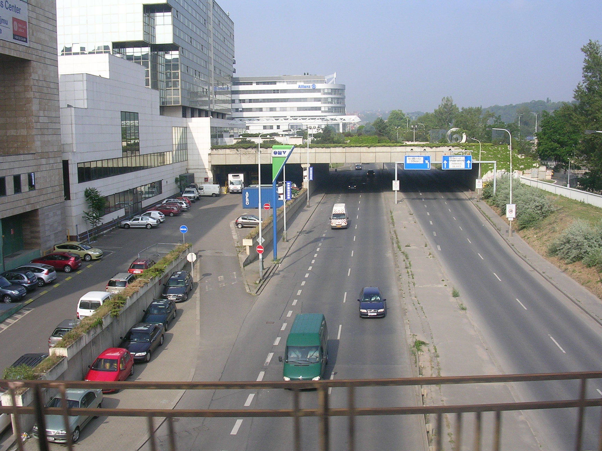 Rohanské nábřeží, Prague, the Czech Republic.